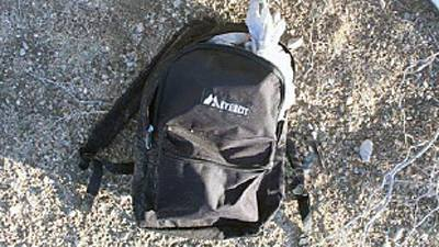 Crime scene of a backpack found in Barstow, California, that contained the severed head of an unidentified female.